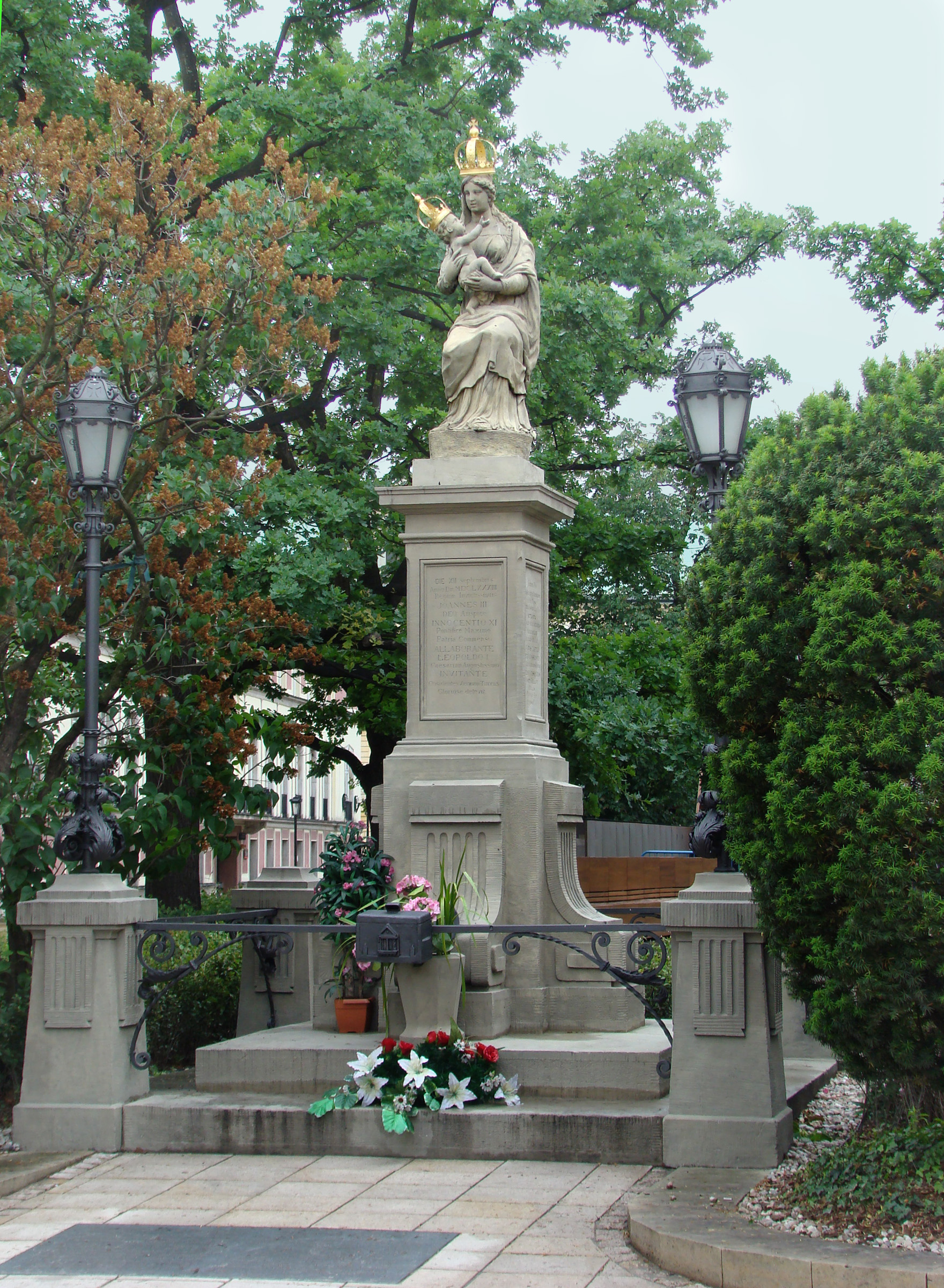 Passauer Madonna Monument Warsaw